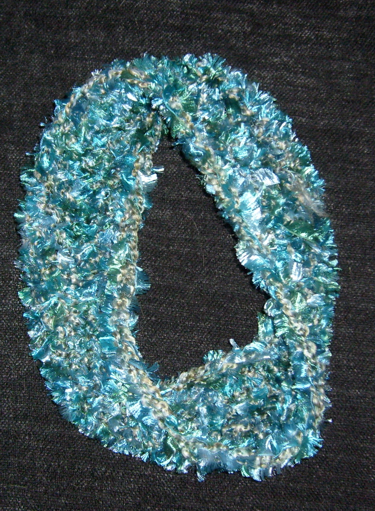 A demonstration of the mathematical basis of crochet: a scarf made as a moebius strip. Acrylic with novelty yarn. Original design.